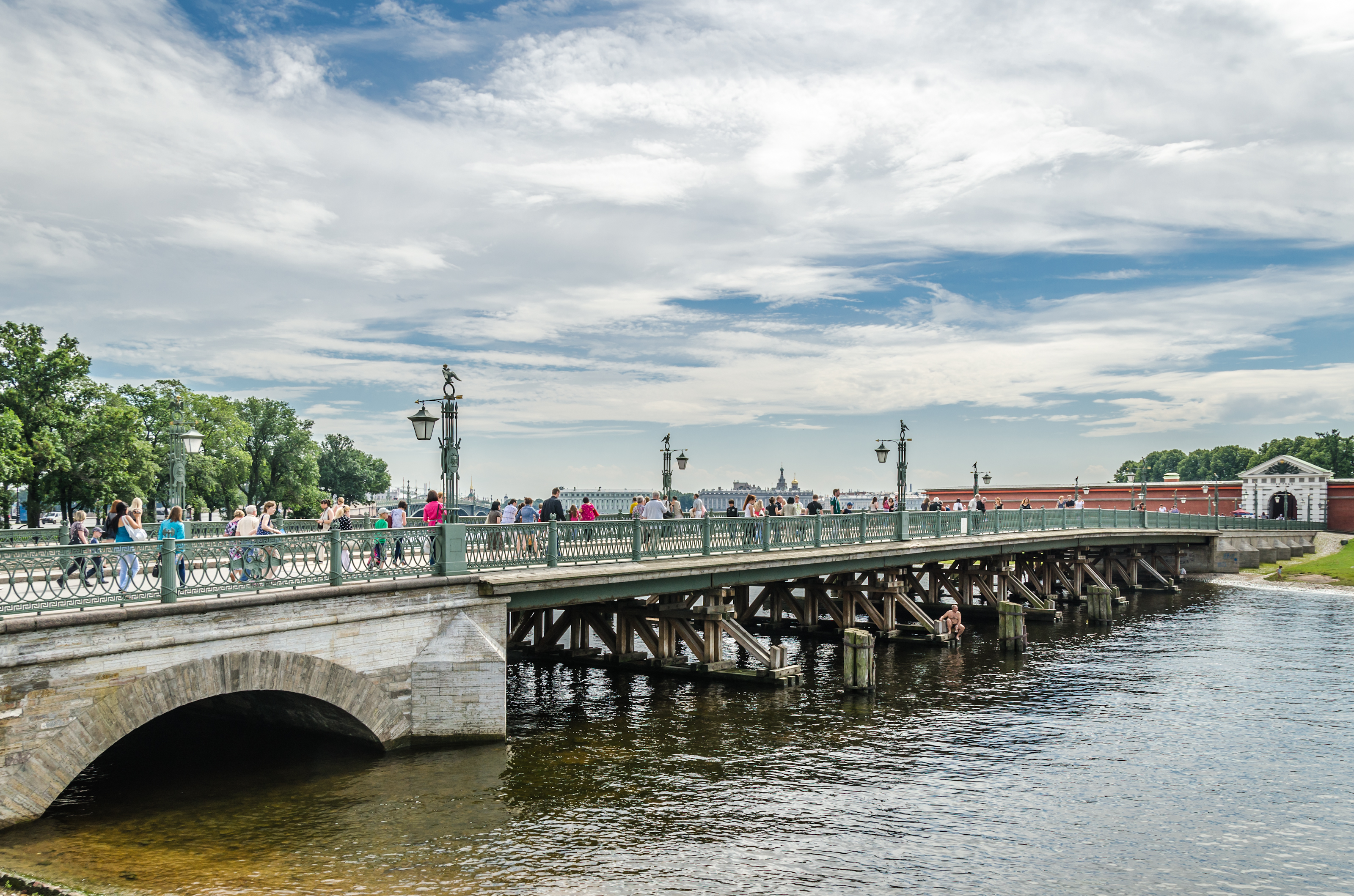 Ioannovskiy Bridge in Saint Petersburg